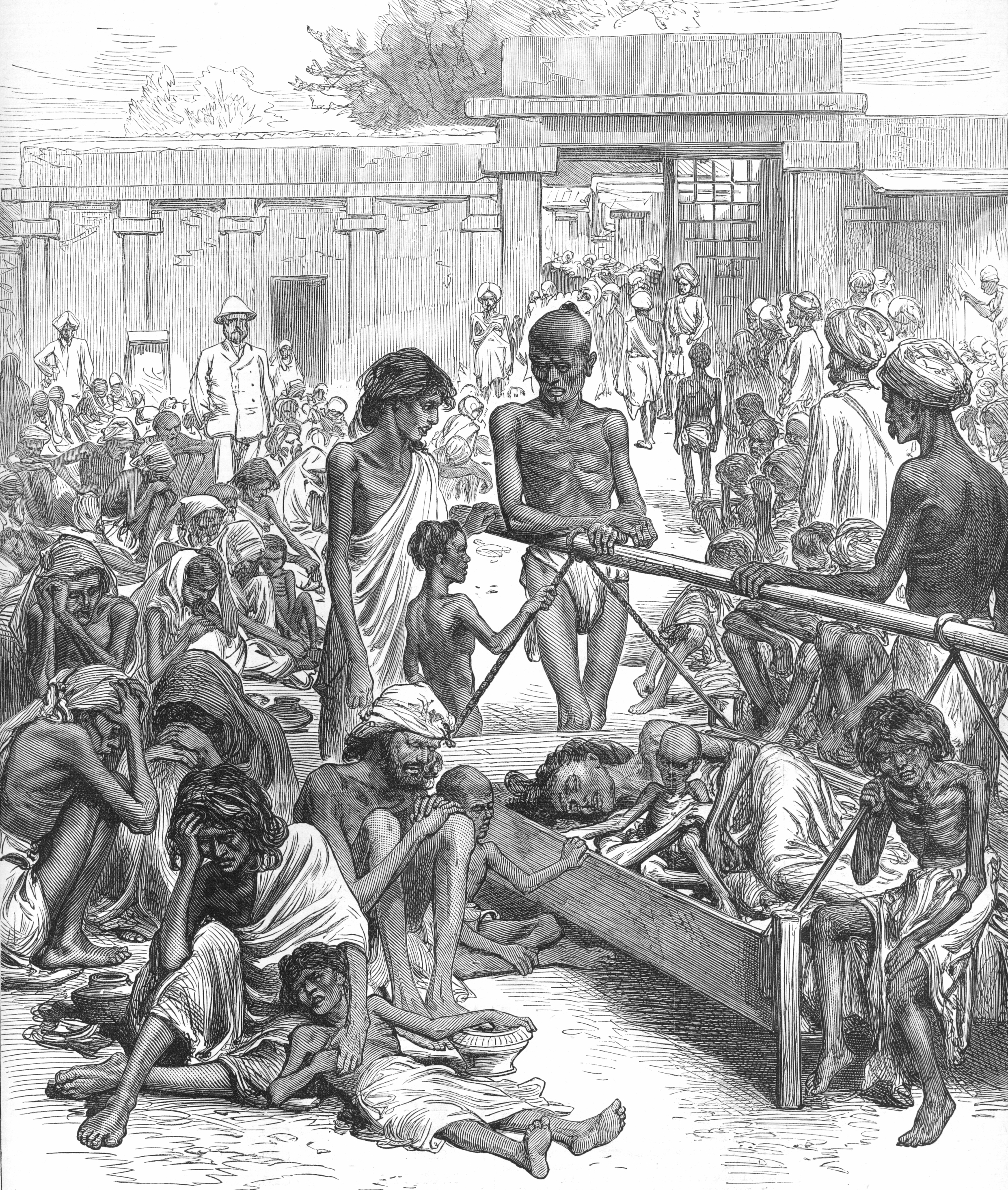 The Famine in India: Natives Waiting for Relief at Bangalore (original caption). Scan of image from The Illustrated London News (no artist given), Saturday, October 20, 1877. This is the complete image. The famine the image depicts is the Great Famine of 1876–78